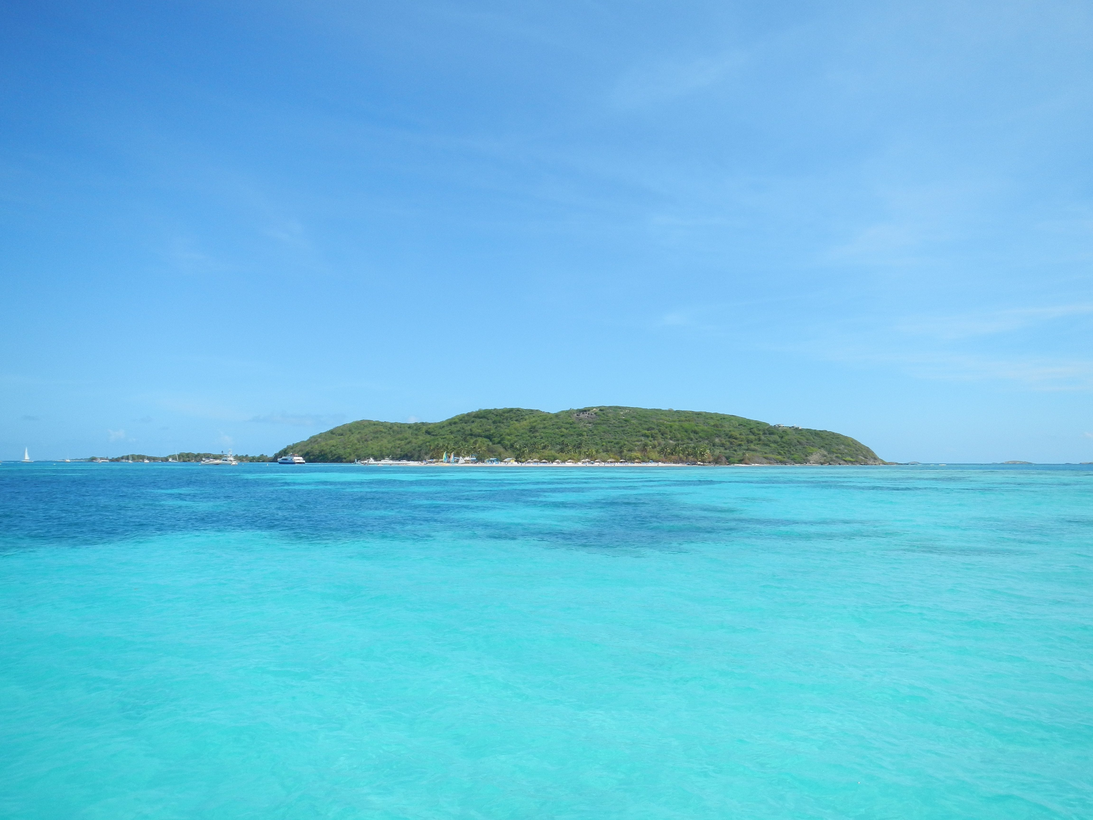 Isla Palominos from a boat, Vieques Sound, Puerto Rico